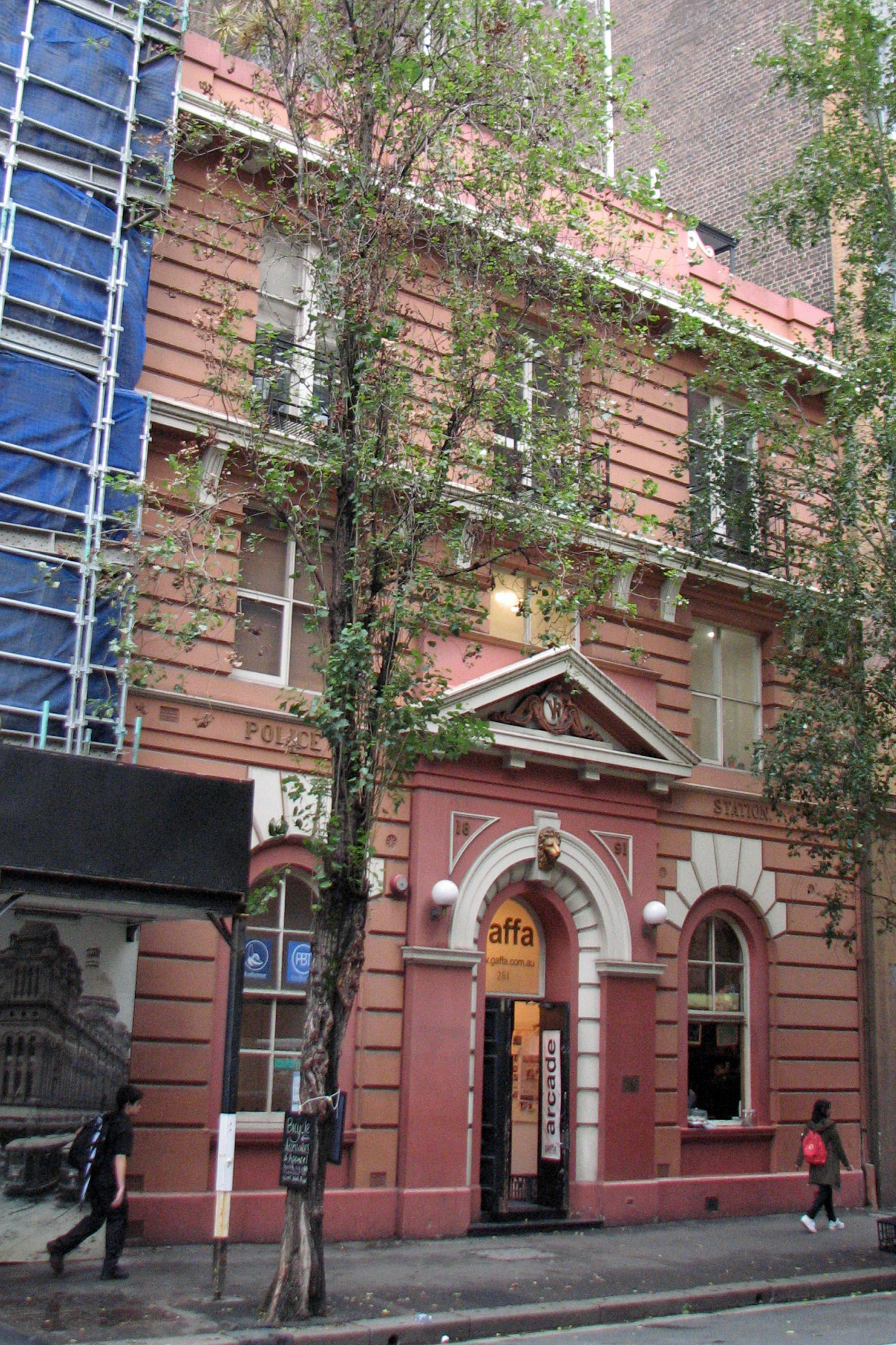 The former police station at 281 Clarence Street Sydney has been placed in the New South Wales State Heritage Register